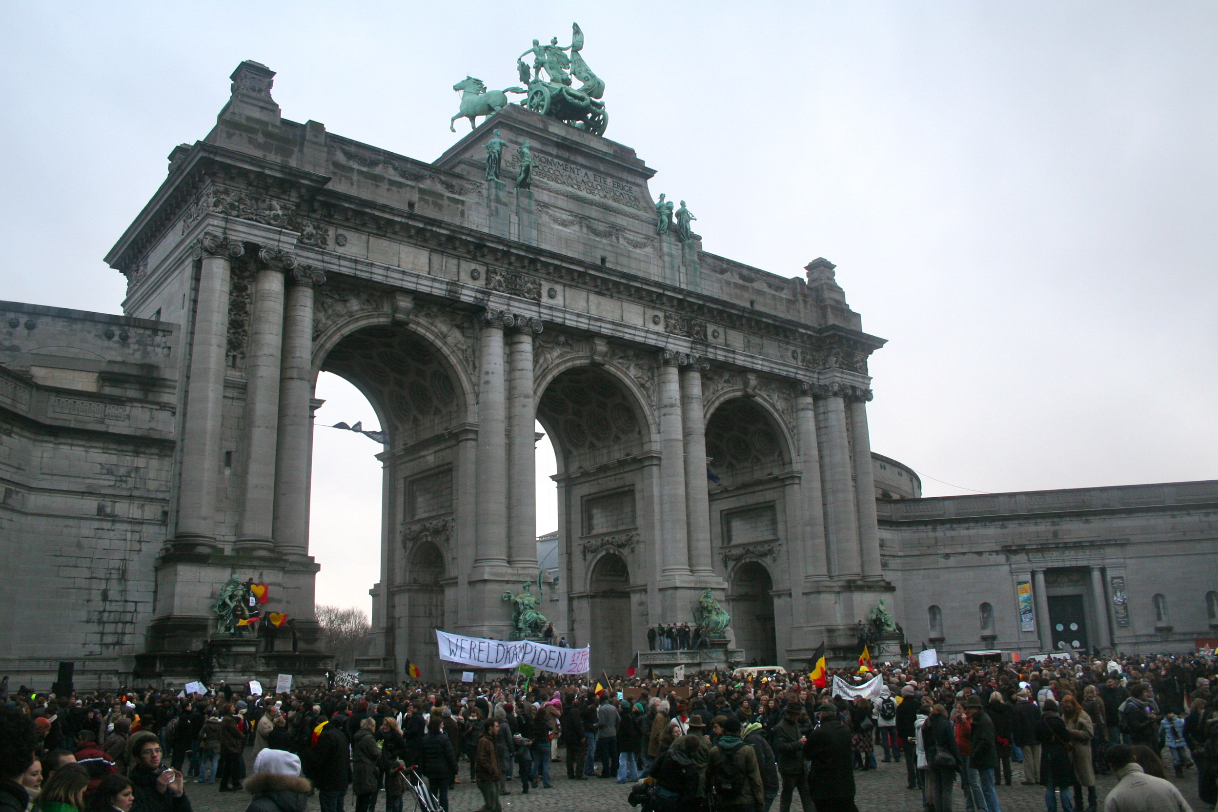 Rally for a new Belgian government in Parc du Cinquanenaire, Brussels.